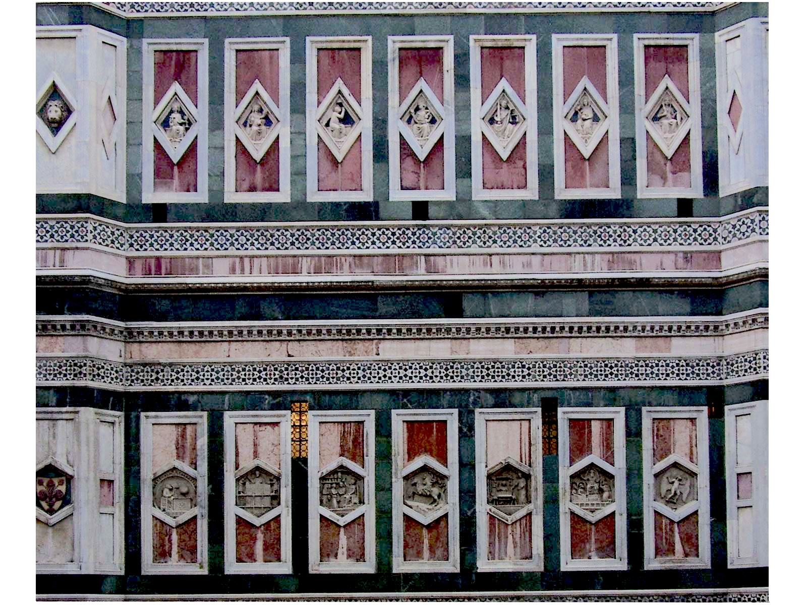 Author Michele Perillo (Mikils 17:26, 30 January 2006 (UTC)) 21st January 2006